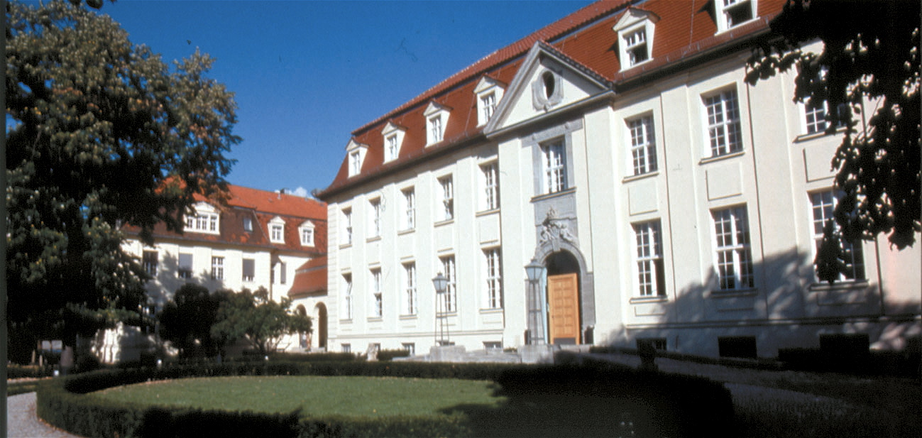 ESCP-EAP Berlin